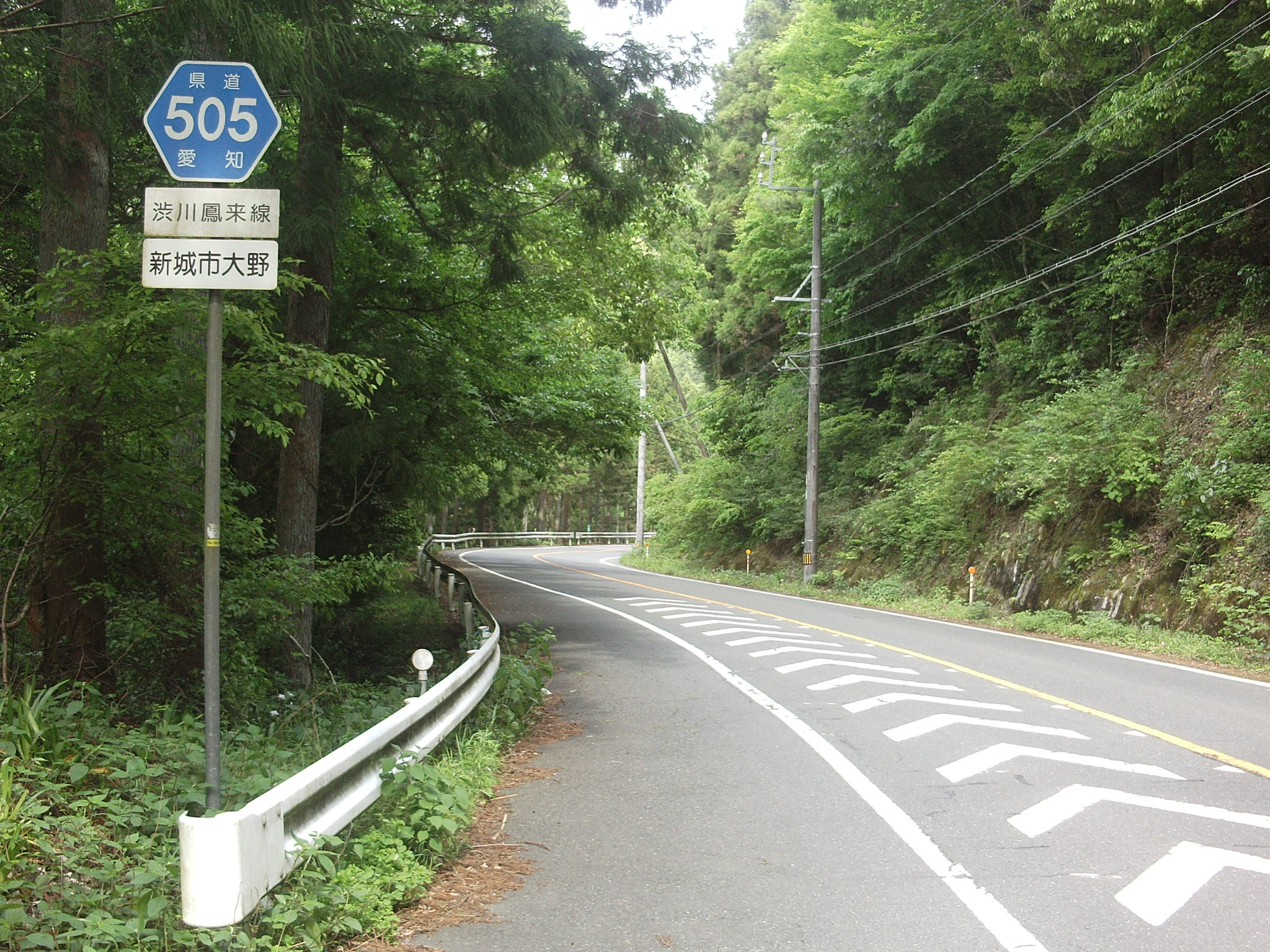 Aichi prefectural road No.505 in Ono, Shinshiro, Aichi.